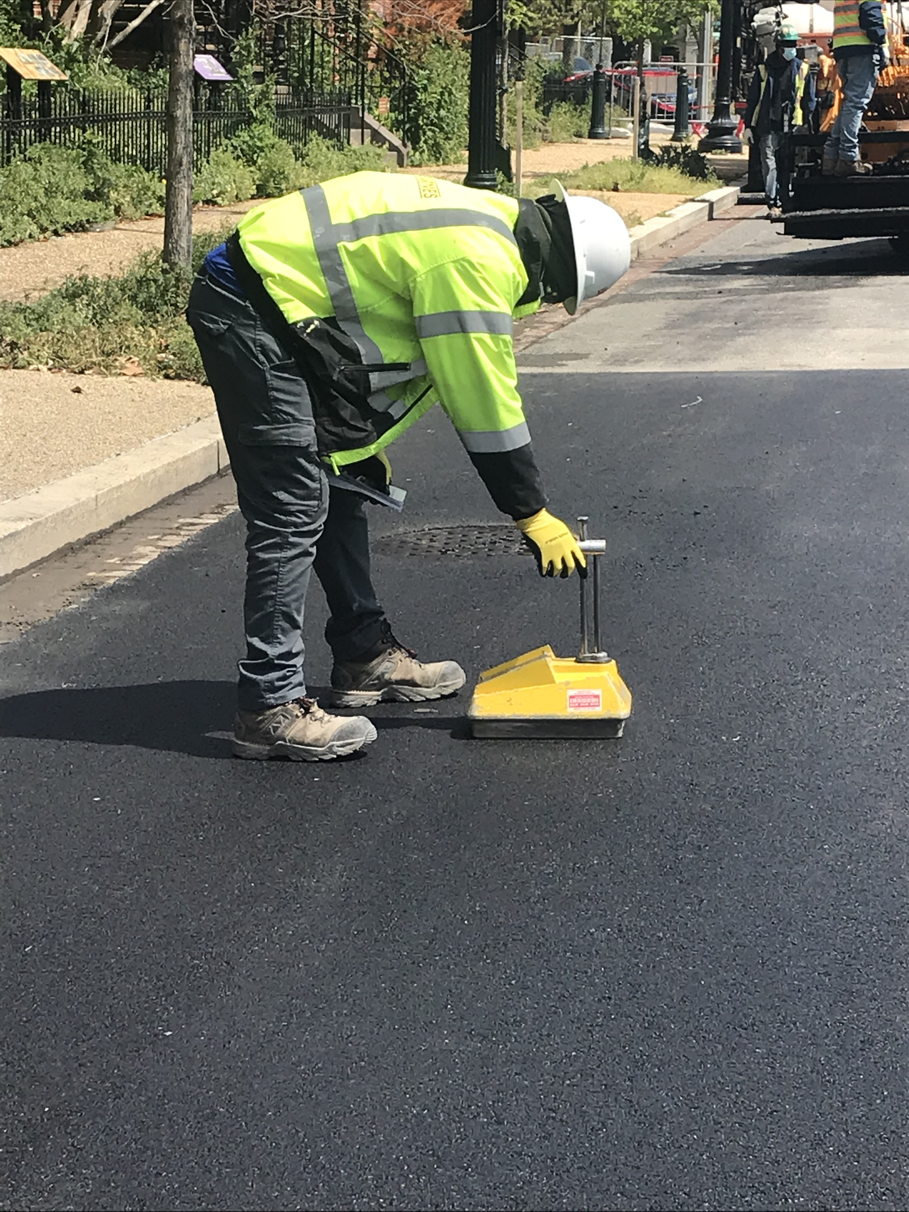 Asphalt Density Meter being used in Washington, DC.